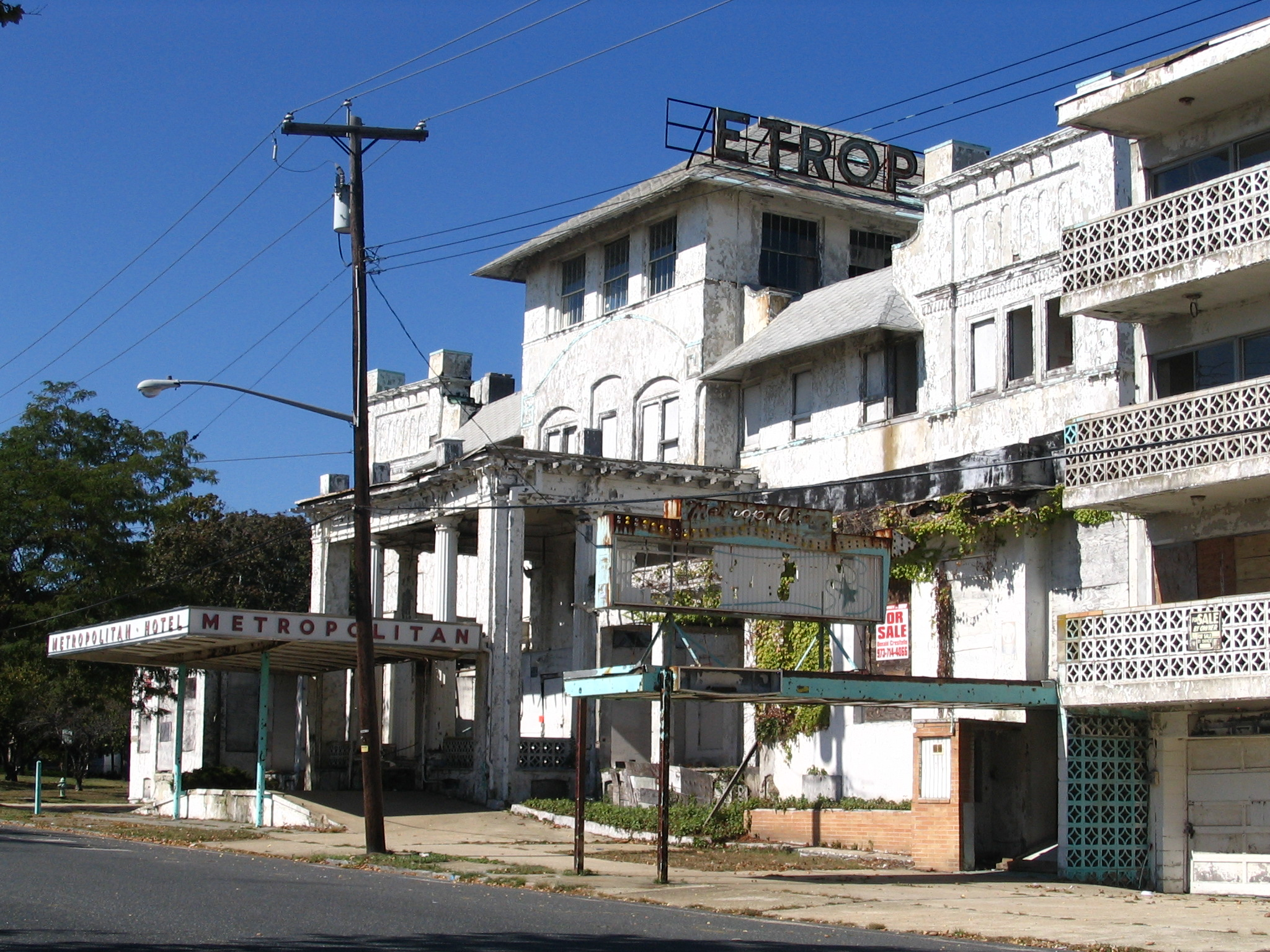 East view of Metropolitan hotel, Asbury Park, NJ before it's slated demolition